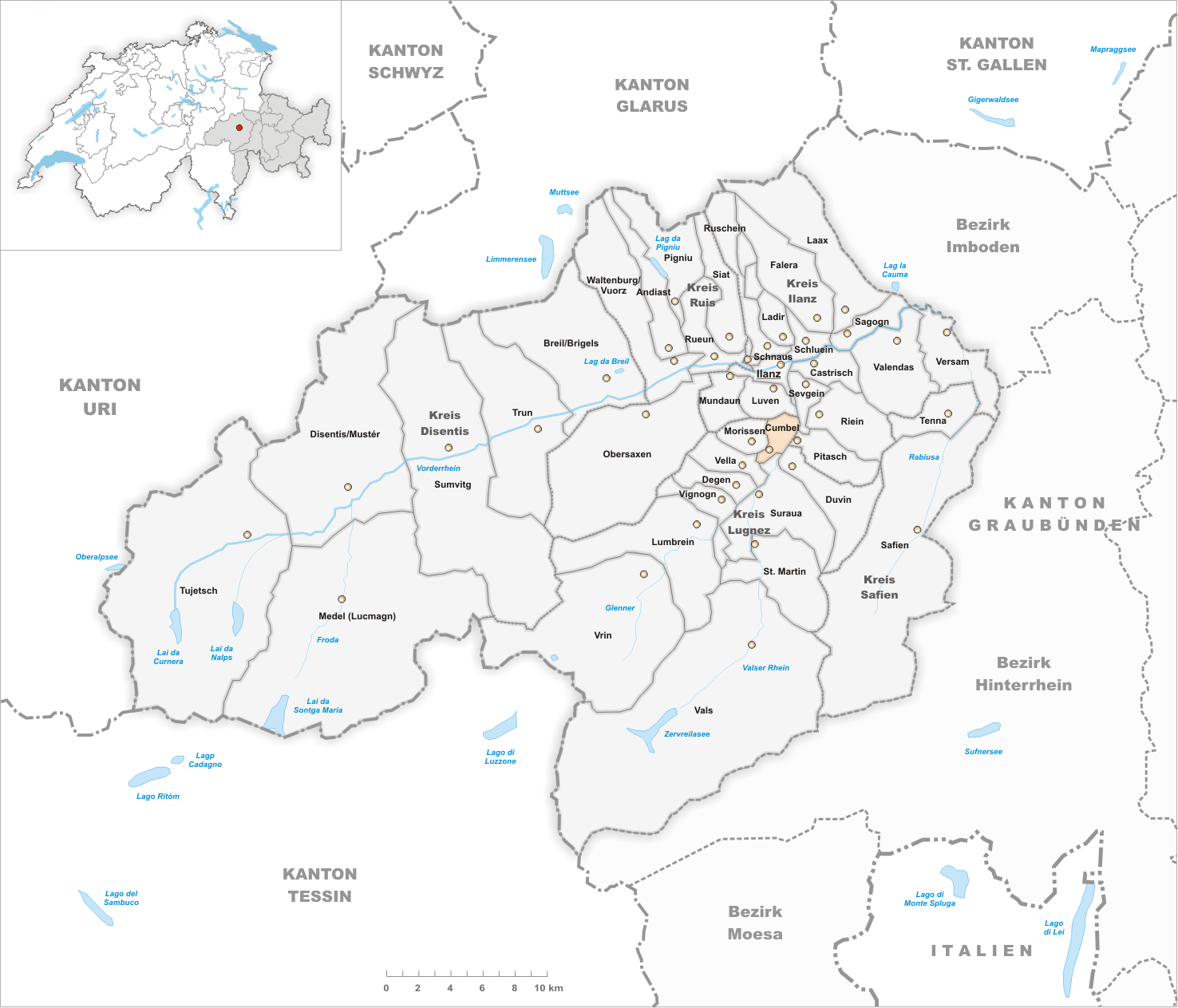 Municipality Cumbel